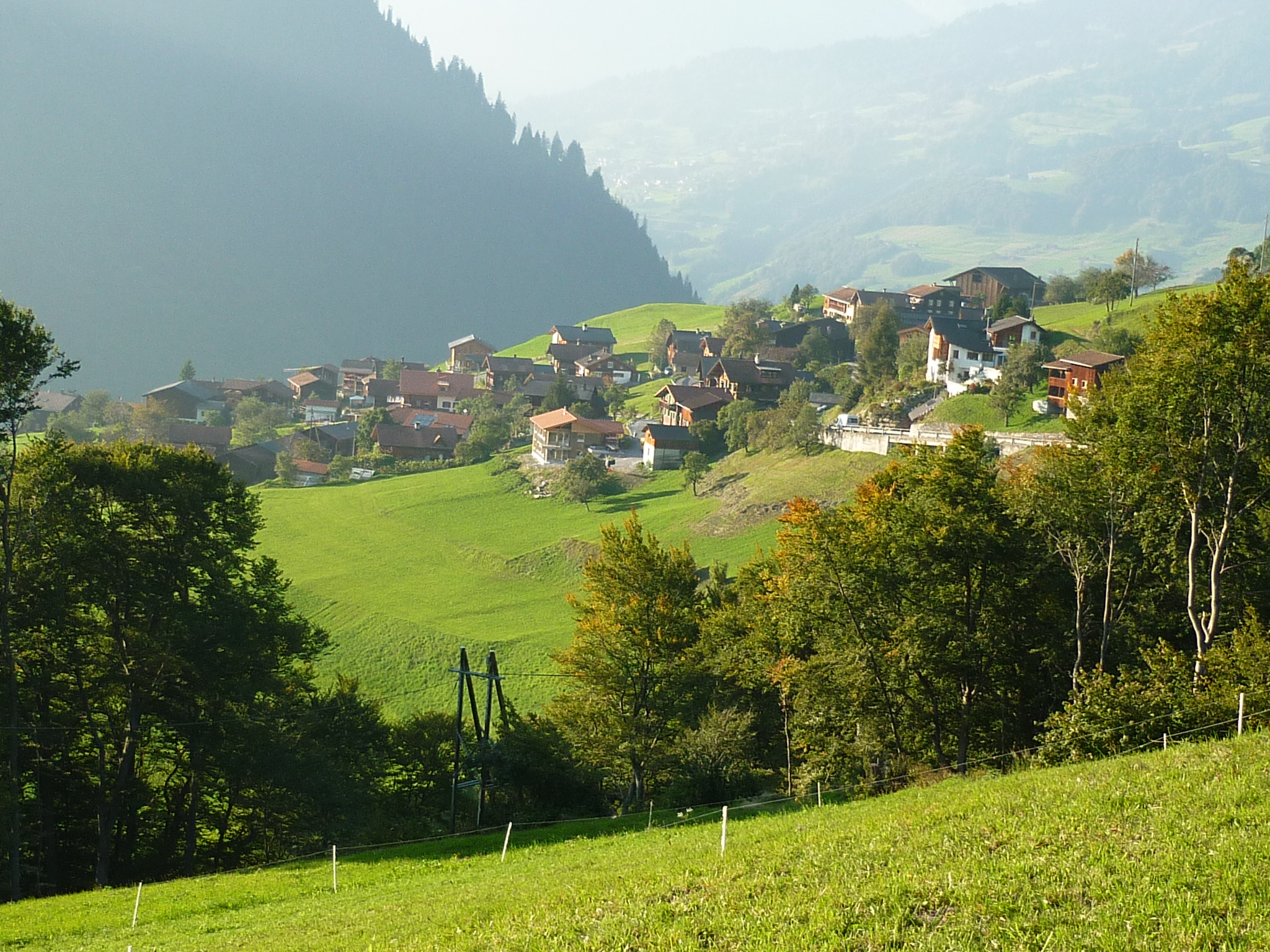 Buchen GR, Switzerland